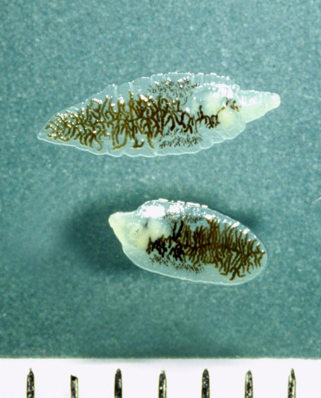 Adults of Dicrocoelium dendriticum, trematode parasites of sheep. Fresh and unstained, scale in millimetres.